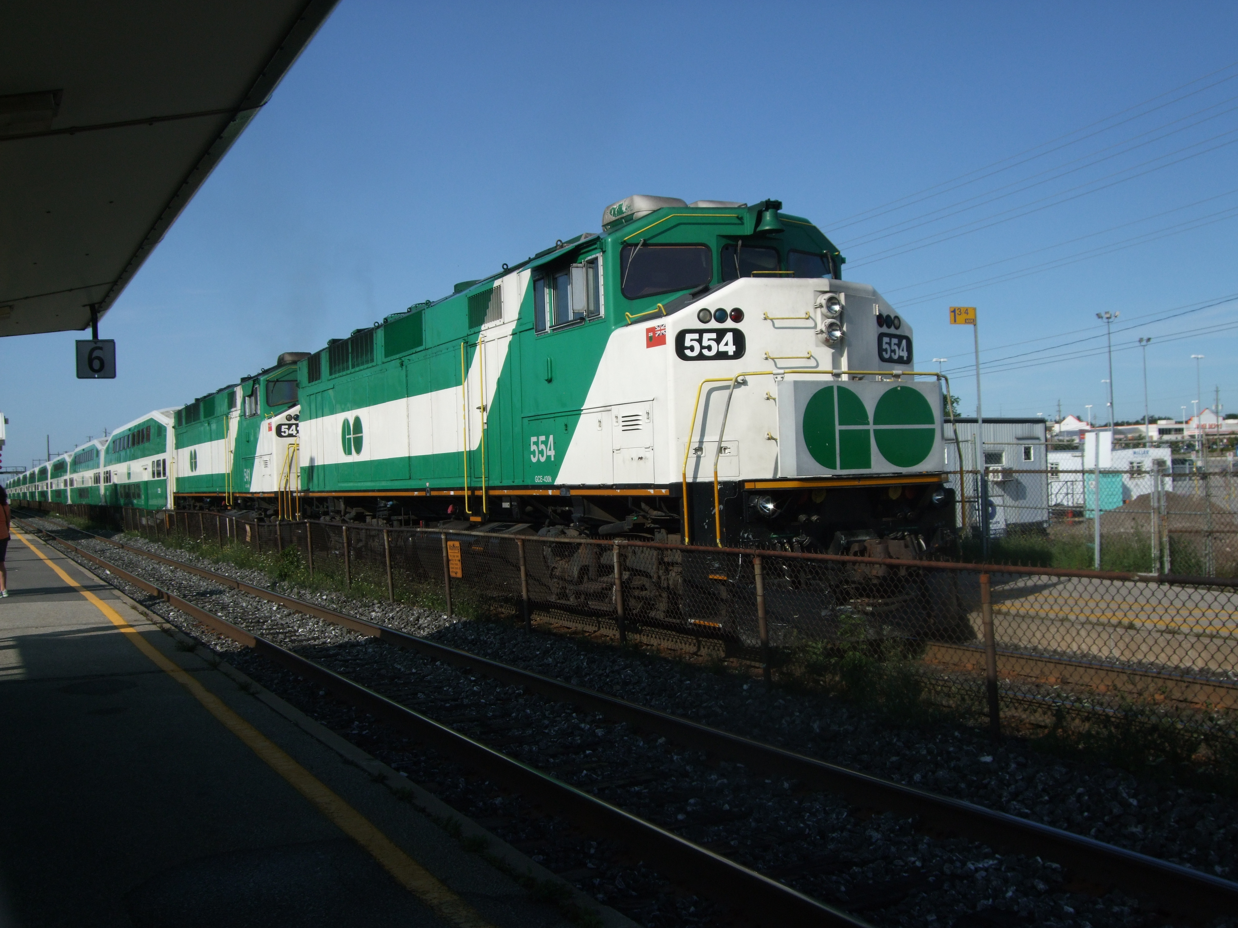 GO Transit train at Oakville Station